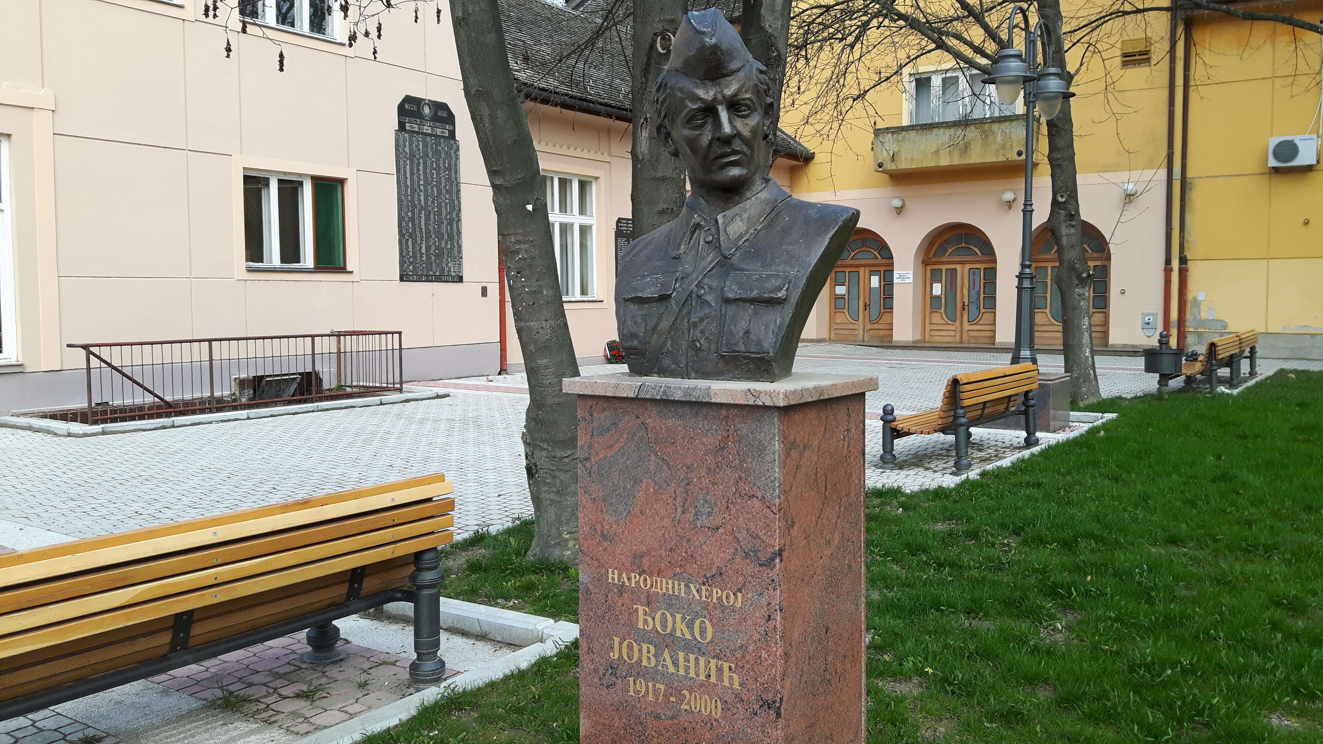 Bust of the People's hero of Yugoslavia and general of the Yugoslav People's Army, Đoko Jovanić (1917-2000), Apatin.